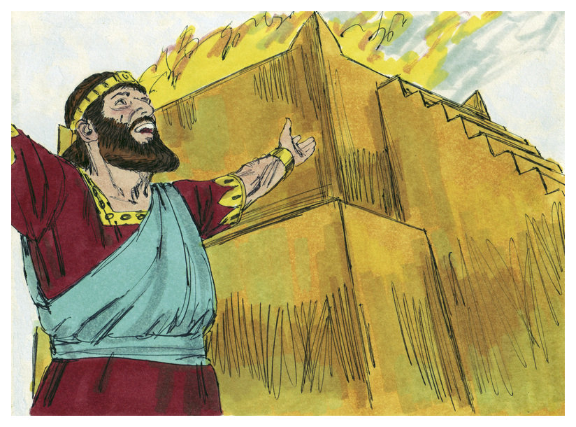 Biblical illustration of Second Book of Chronicles Chapter 6